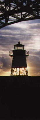 Lighthouse of Fort Point, San Francisco